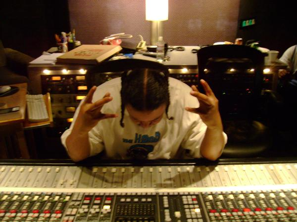 Chilly Chill Throwing The W's In The Studio!